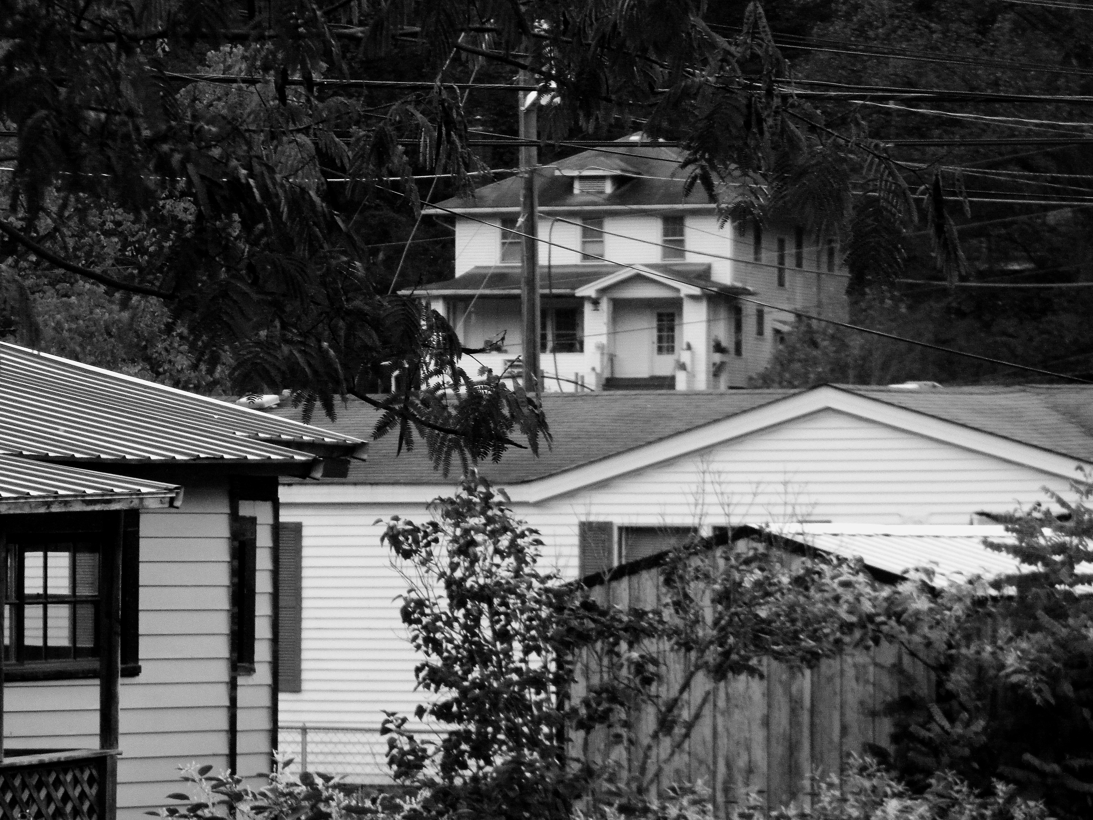 View of Supervisors house at Helen West Virginia